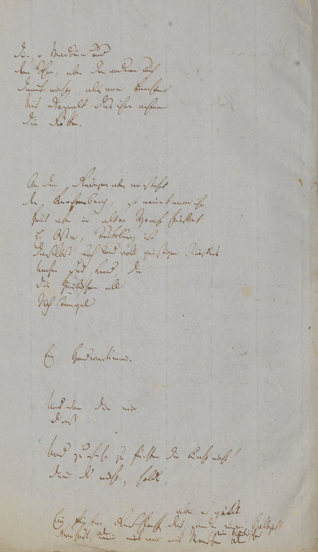 Manuscript by Friedrich Hölderlin "An die Madonna" page 6